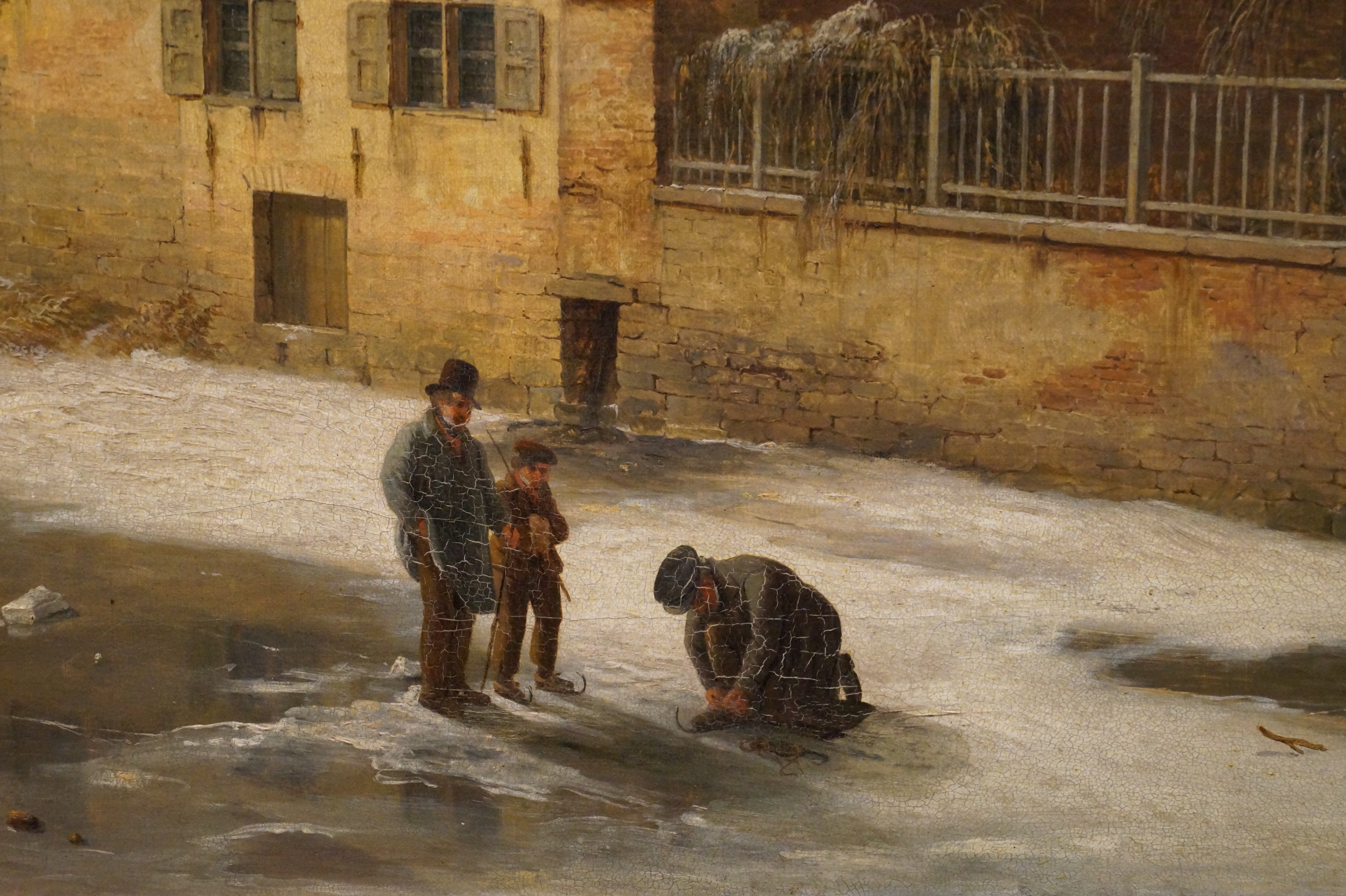 PierreFrançois De Noter (Walem 1779-Gent 1842) - Wintergezicht in Gent, 1838 (detail) This is a file created at the museum: Museum of Fine Arts in Ghent